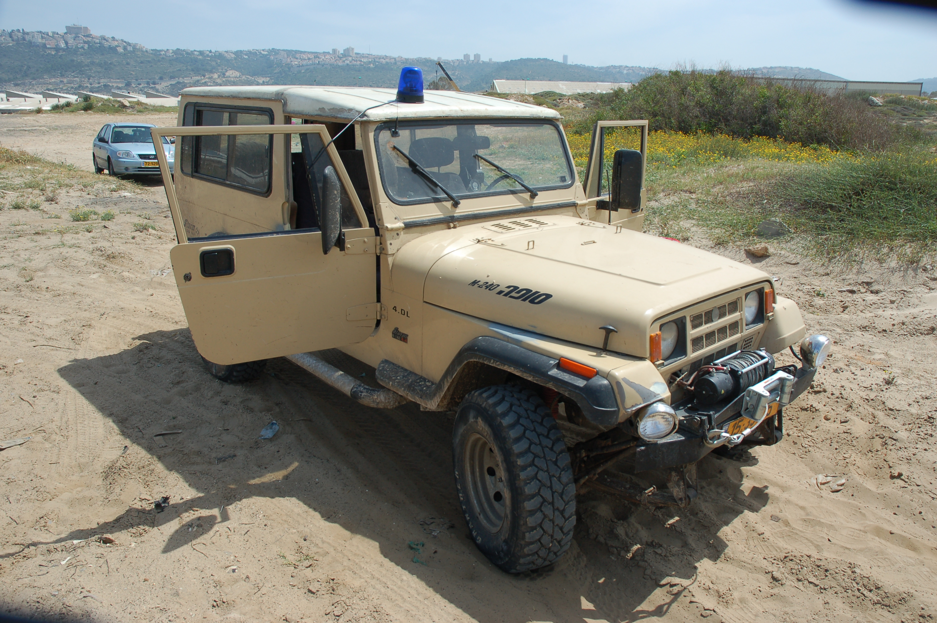 AIL Storm